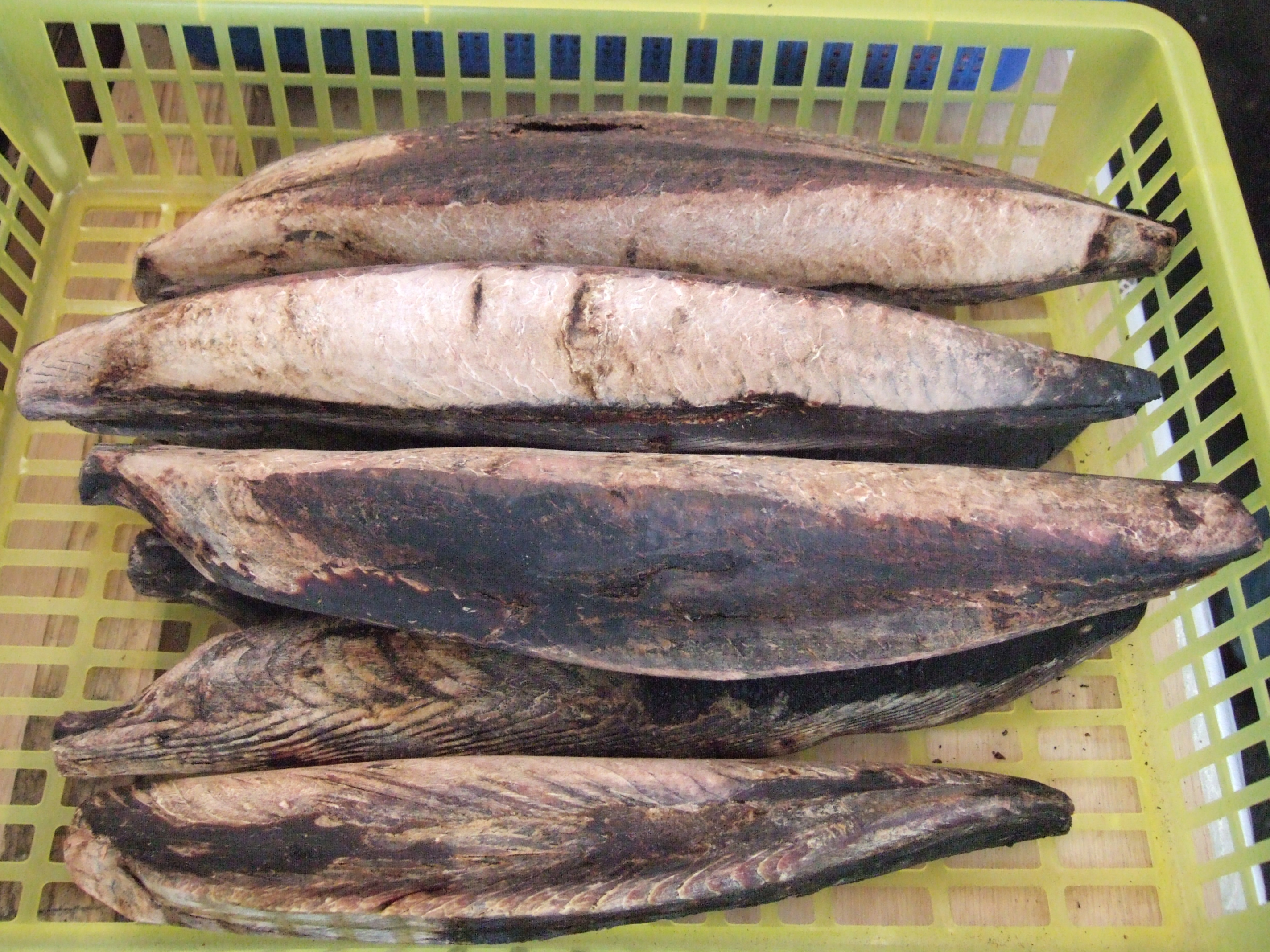 Katsuobushi